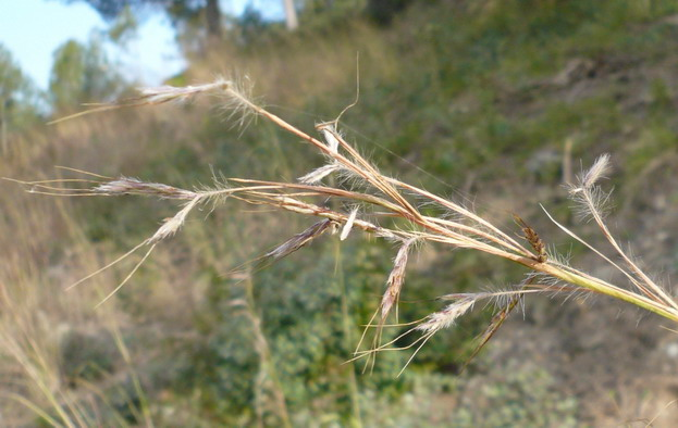 Hyparrhenia hirta Collserola, near Sant Bartomeu de la Quadra, Molins de Rei, Baix Llobregat, Catalonia. February 3rd 2007.